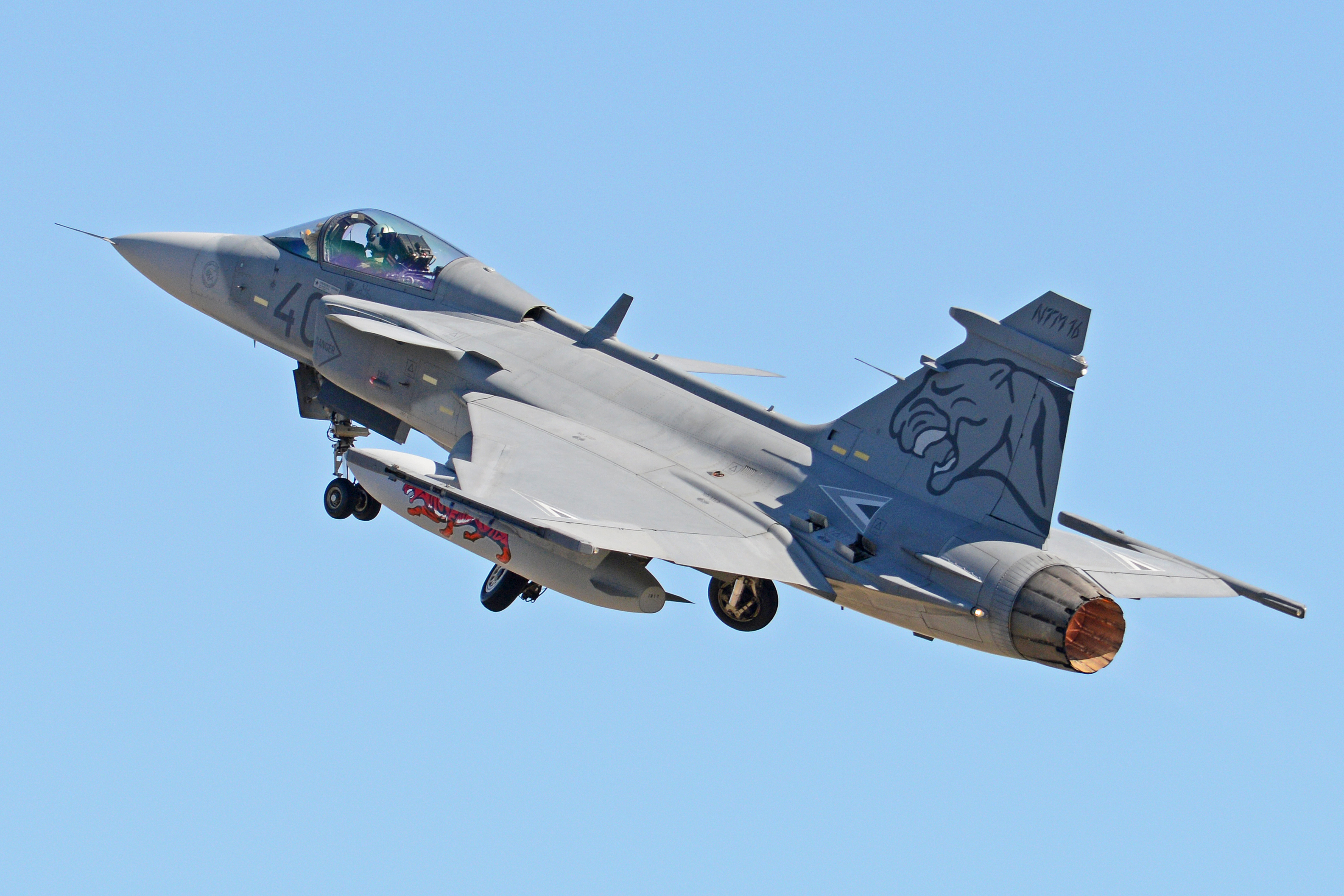 c/n 39-3311. Operated by 59/1 Sqn, Hungarian Air Force, based at Kecskemét. Seen during the 2016 NATO Tiger Meet (NTM) held at Zaragoza Air Base, Spain. 20th May 2016